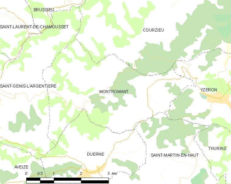 Map of French municipality